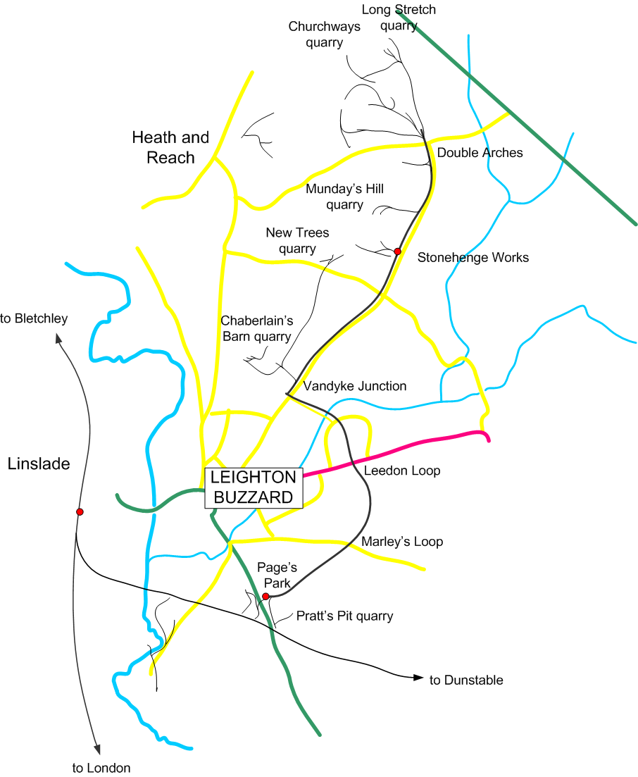 Map of the Leighton Buzzard Light Railway Author: Dan Crow Date: October 25, 2006